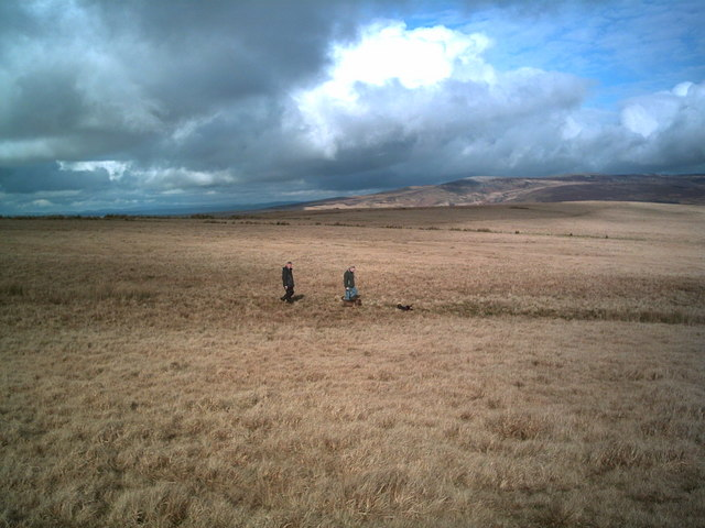 Mynydd y Betws Mynydd y Betws with western beacons in the background.